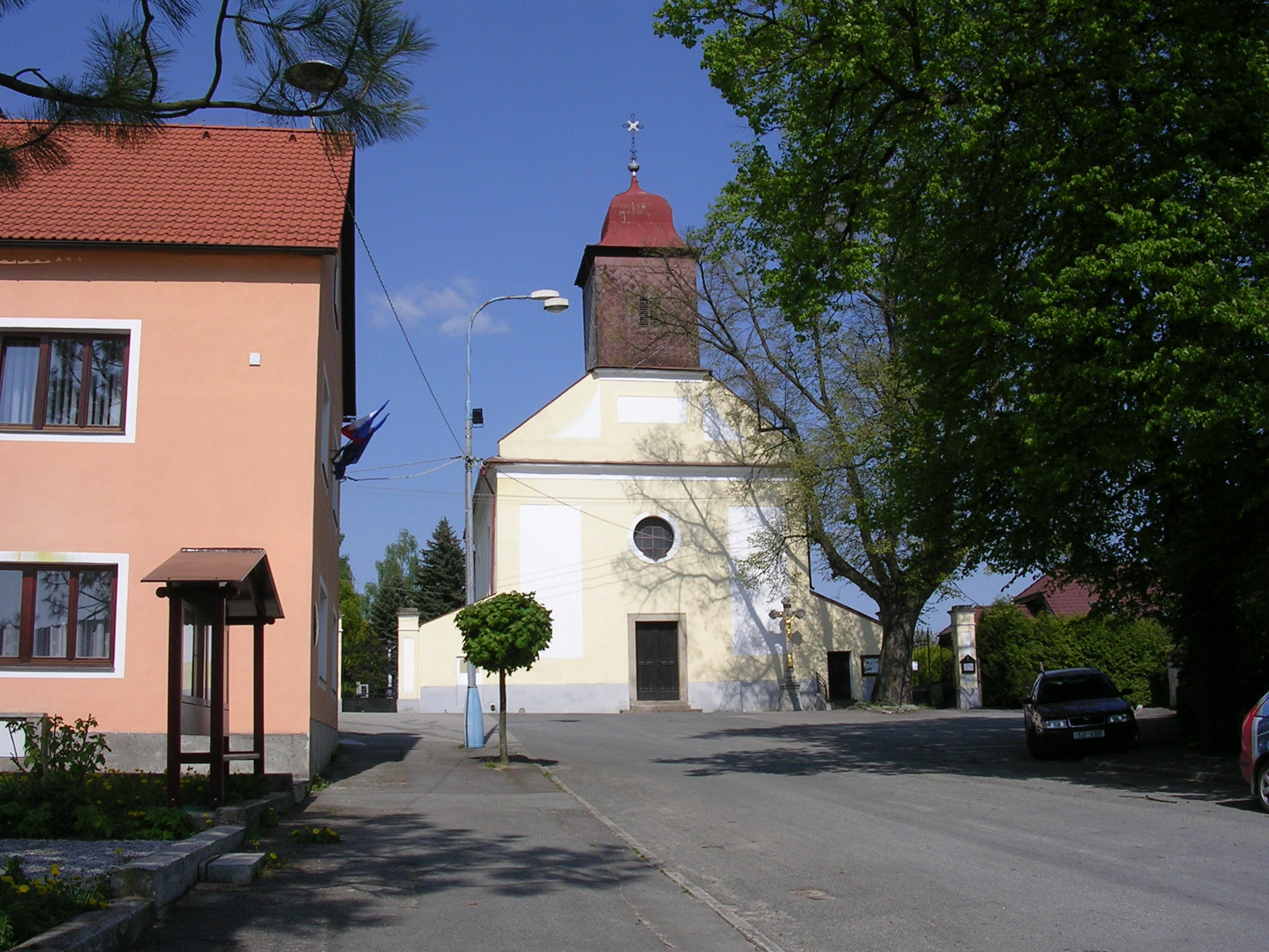 Popelín, South Bohemian Region, the Czech Republic.